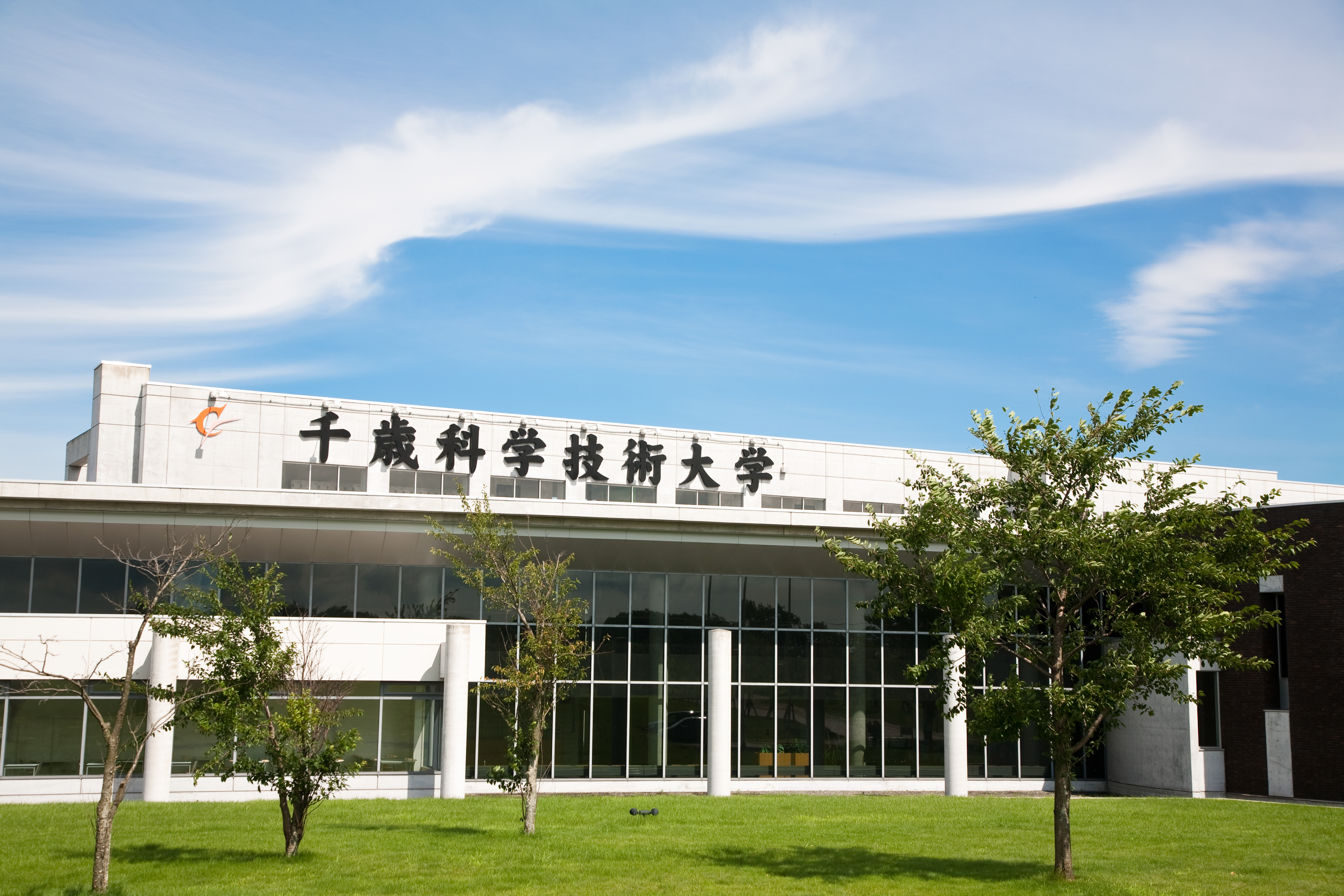 CHITOSE INSTITUTE OF SCIENCE AND TECHNOLOGY